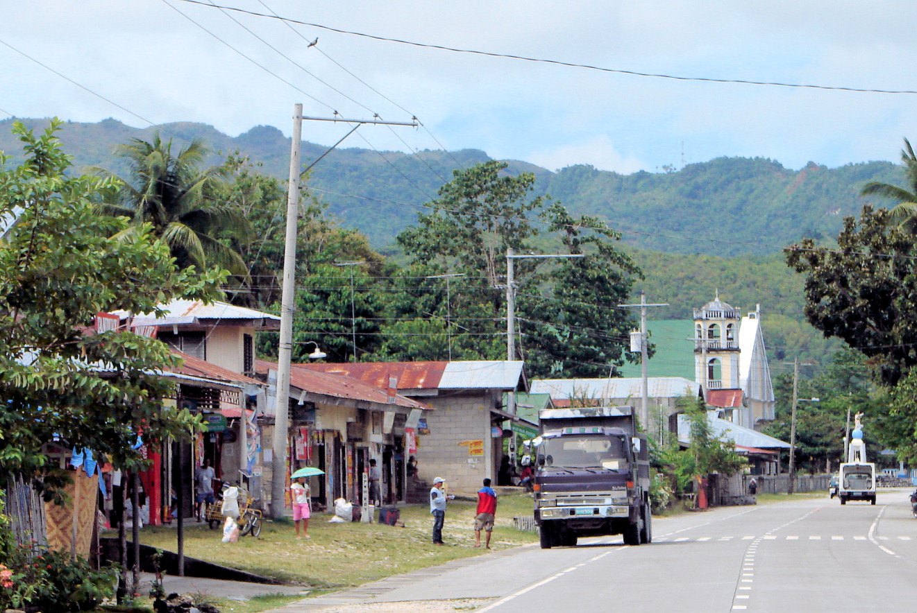 Garcia Hernandez, Bohol, the Philippines. Public market on the left.